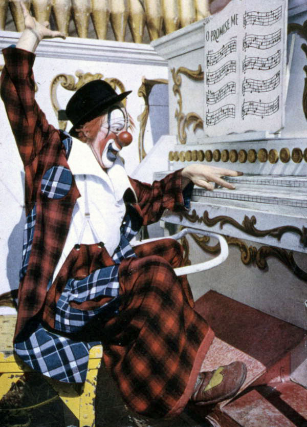 Lou Jacobs (born Johann Ludwig Jacob in 1903 in Bremerhaven, Germany), was an Auguste Master Clown who performed for Ringling Bros. and Barnum & Bailey Circus for about 60 years from 1925 to 1985. I